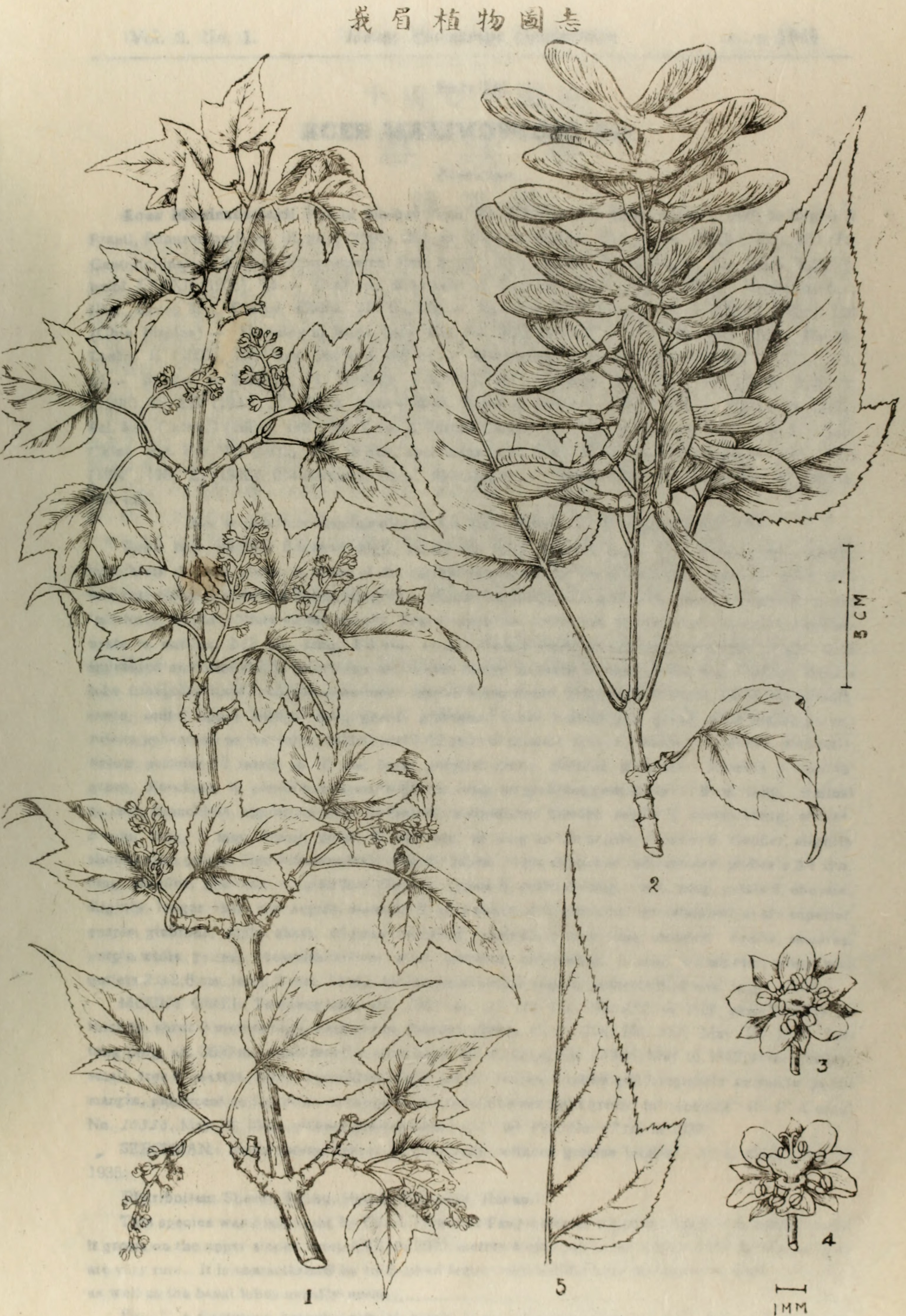 Title: e mei zhi wu tu zhi Year: 1945 (1940s) Authors: fang wen pei Subjects: botany Publisher: Text Appearing Before Image: ' Text Appearing After Image: '